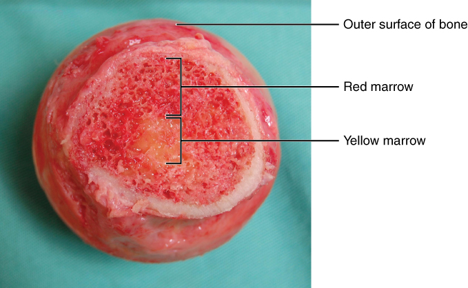 Illustration from Anatomy & Physiology, Connexions Web site. Jun 19, 2013.